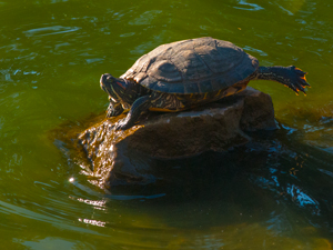 red-eared slider (Trachemys scripta elegans) suns himself on a rock at Spreckels Lake, Golden Gate Park, CA, USA